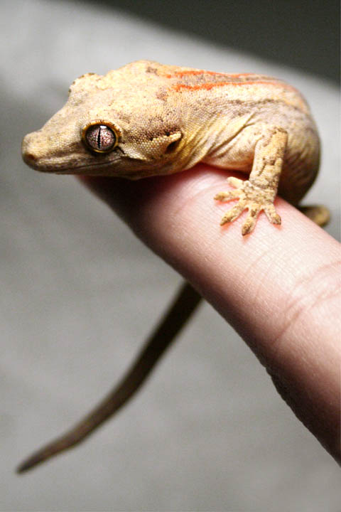 Author: Alfeus Liman